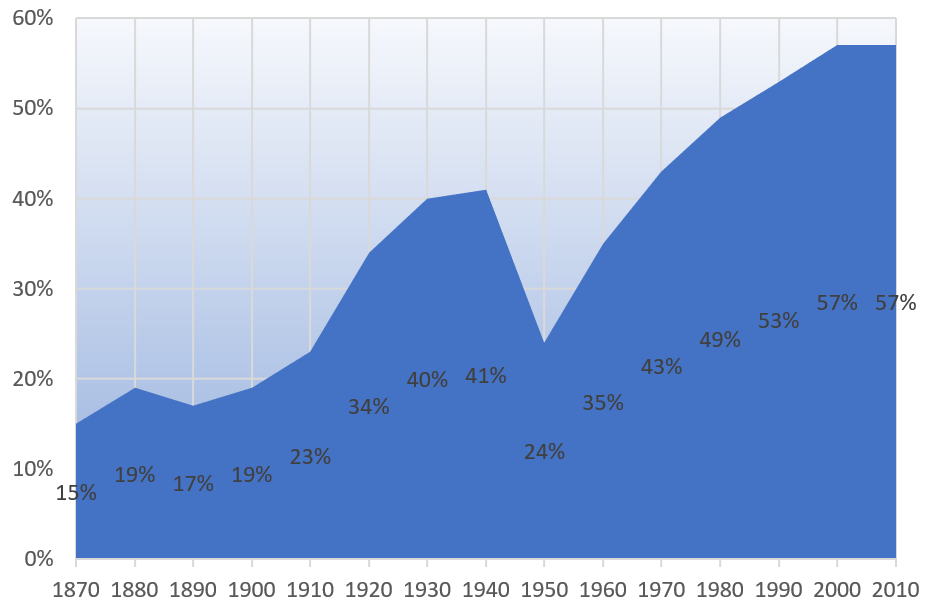 data (National Center for Education Statistics). Years represent academic years, so 2010 = 2009/2010.